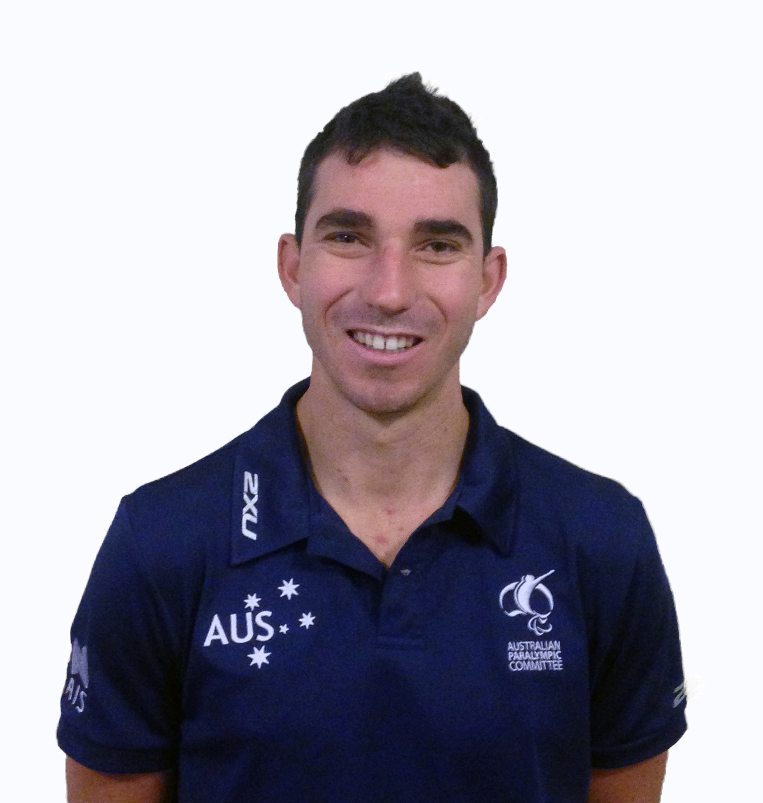 Portrait of 2016 Australian Paralympic Team member Kyle Bridgwood